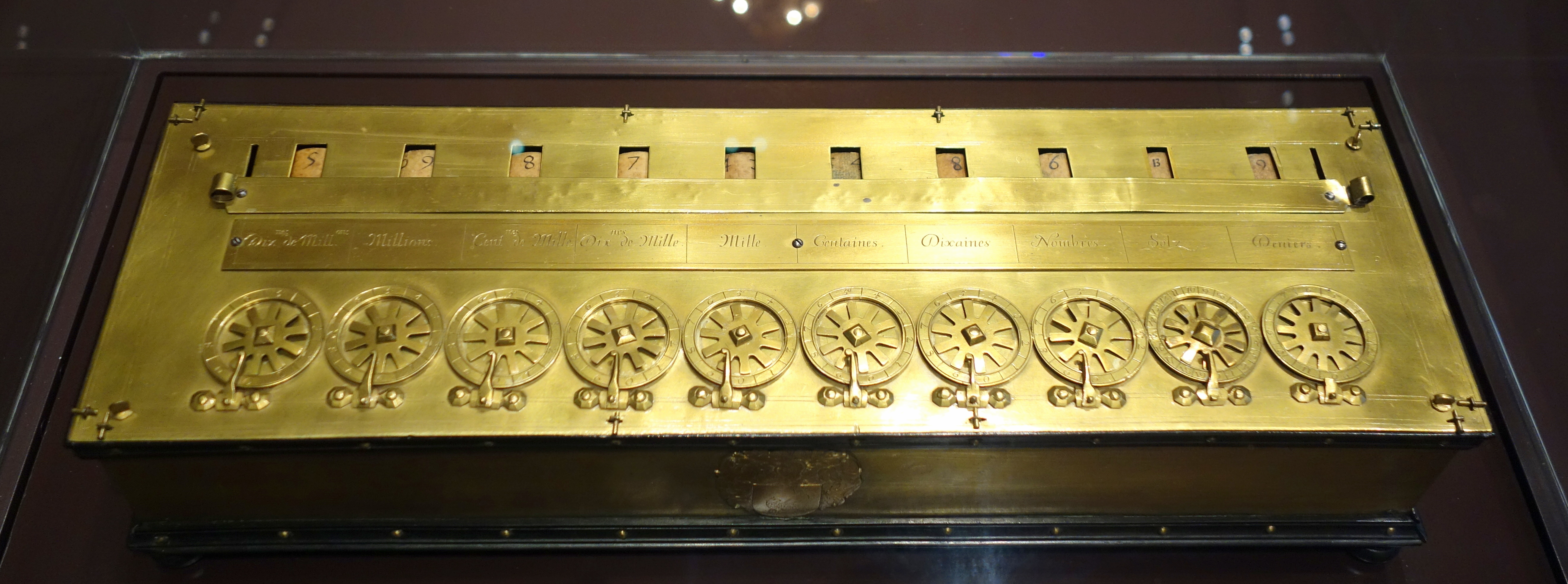 Exhibit in the Mathematisch-Physikalischer Salon (Zwinger), Dresden, Germany. This artwork is old enough so that it is in the public domain.